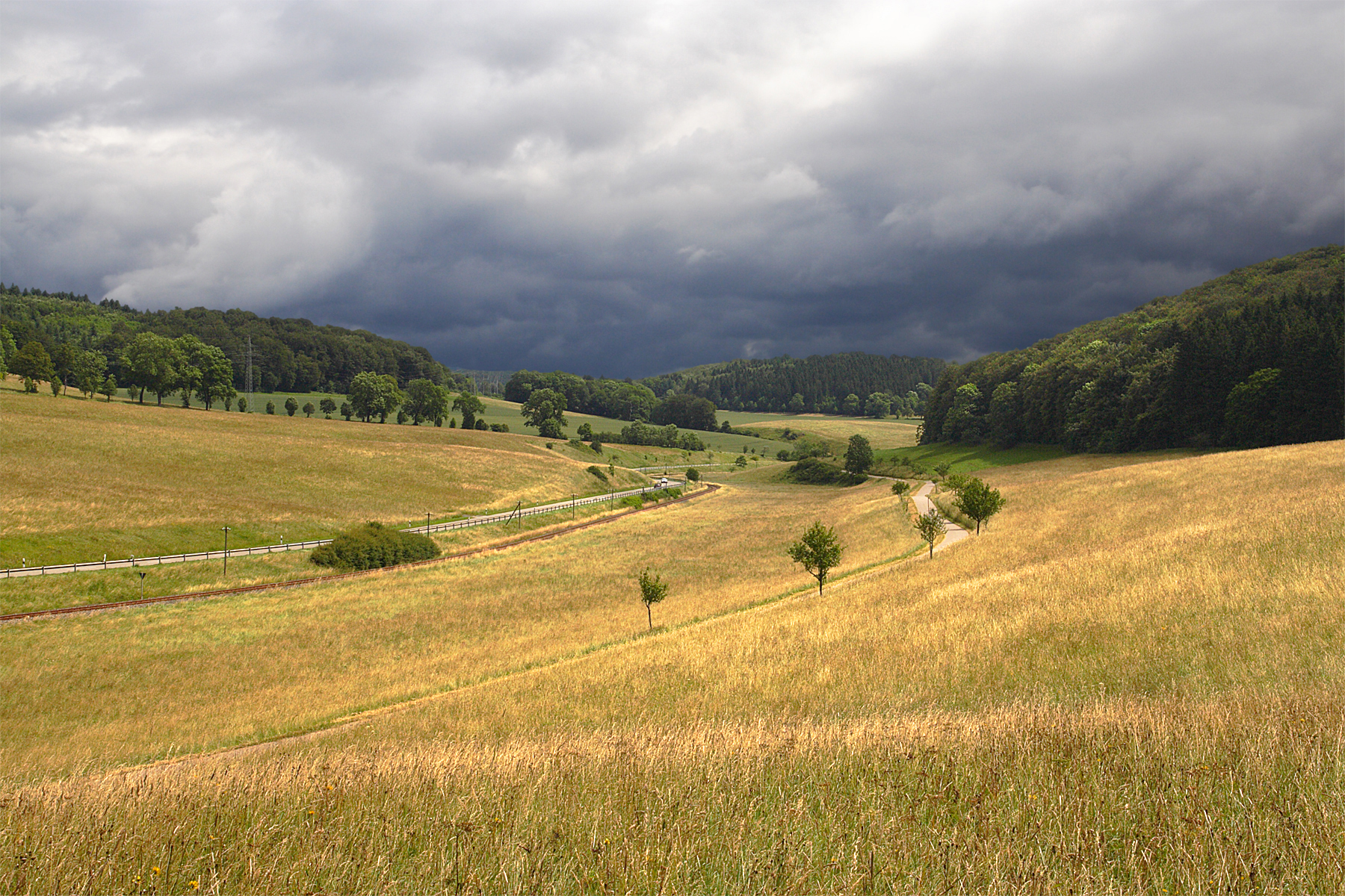 Valley between Kohlstetten and Offenhausen (villages between Großengstingen and Gomadingen, Swabian Alb. The dry valley is the karstified result of a pliocene-pleistocene Ur-Lauter (Große Lauter), which even drained the northern Alb Foreland. The continual tectonic lift of the Alb cut the Ur-Lauter and its drainage of the forland, such that the dry valley of the Große Lauter is now ca. 90 m above the incised Echaz valley.